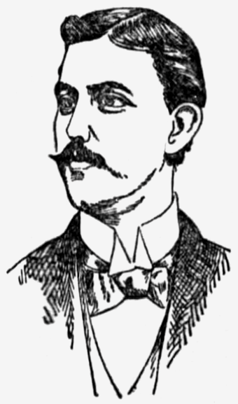 An illustration of baseball player Charles Dooley from the March 7, 1894, edition of the Nashville Banner